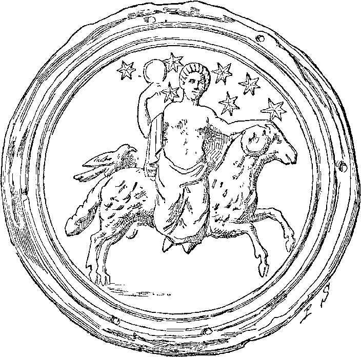 Aphrodite Pandemos on a Goat.